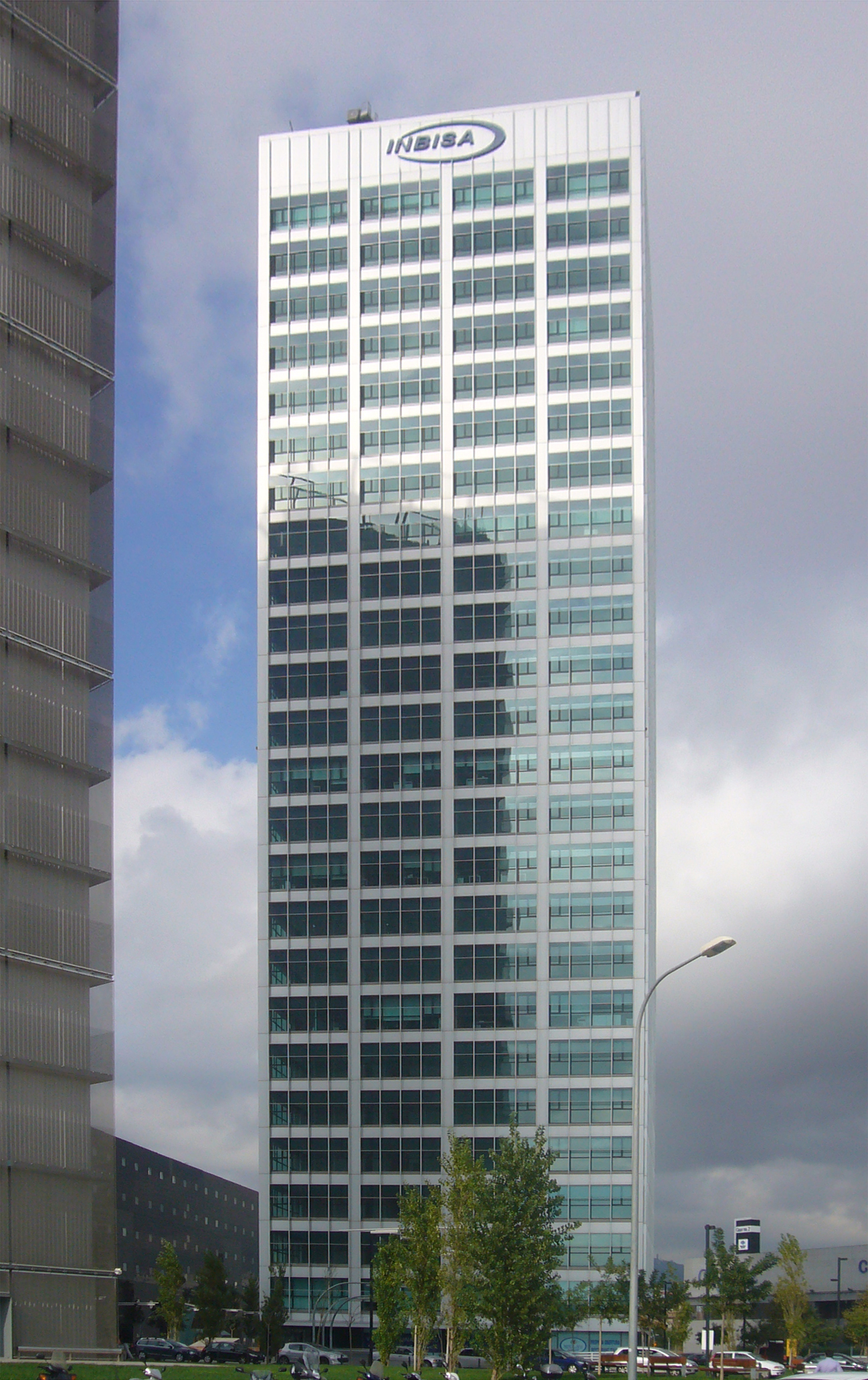 Torre Inbisa